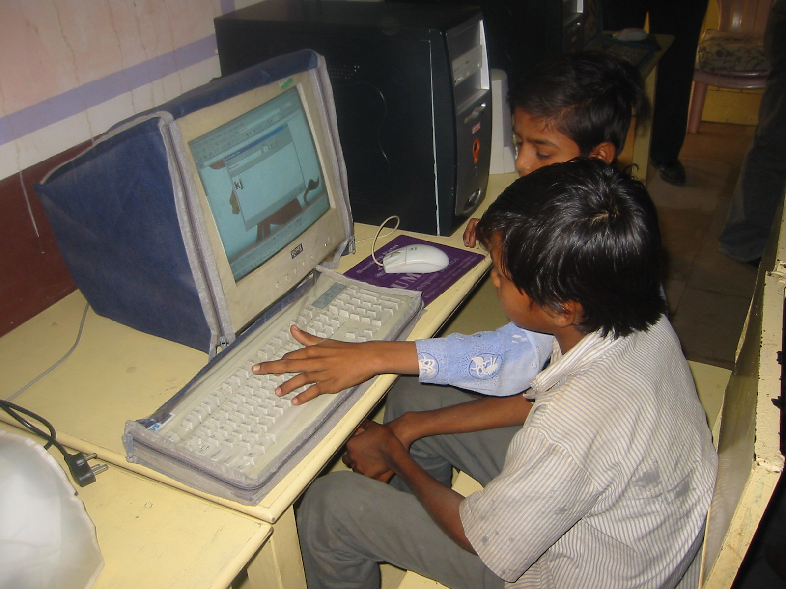 Boys getting computer class near Baroda, Gujarat, India. January 2007. The computers are provided by